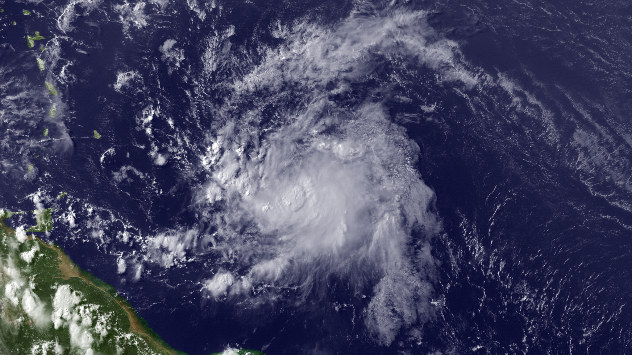 Tropical Storm Chantal in the open central Atlantic on July 8, 2013.